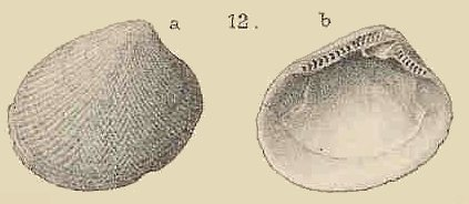 Acila cobboldiae; fossil shell from early Pleistocene deposits from a depth of 200 m. below surface in a borehole in the town of Utrecht, The Netherlands